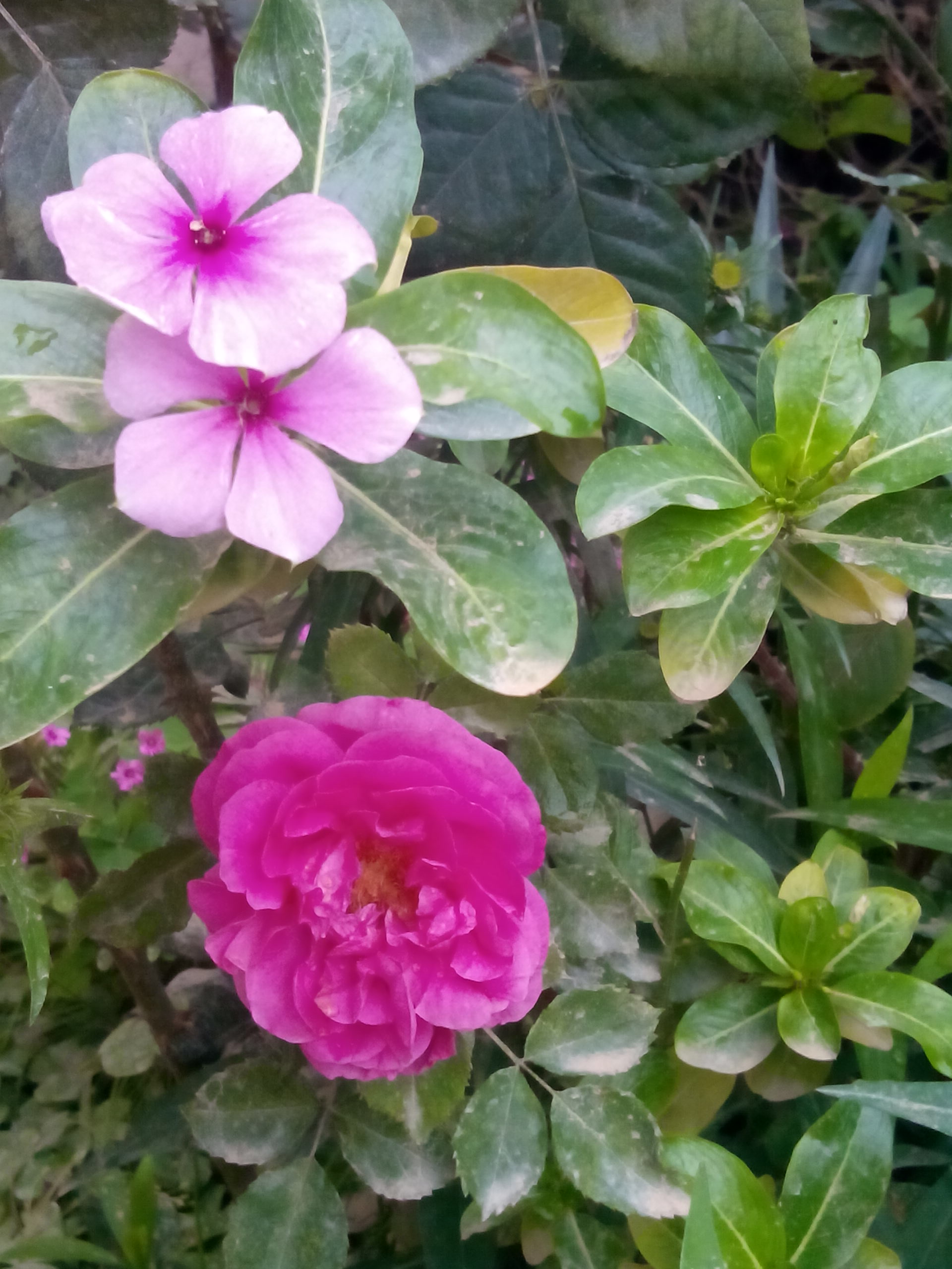 Red Flower's in Baghdad